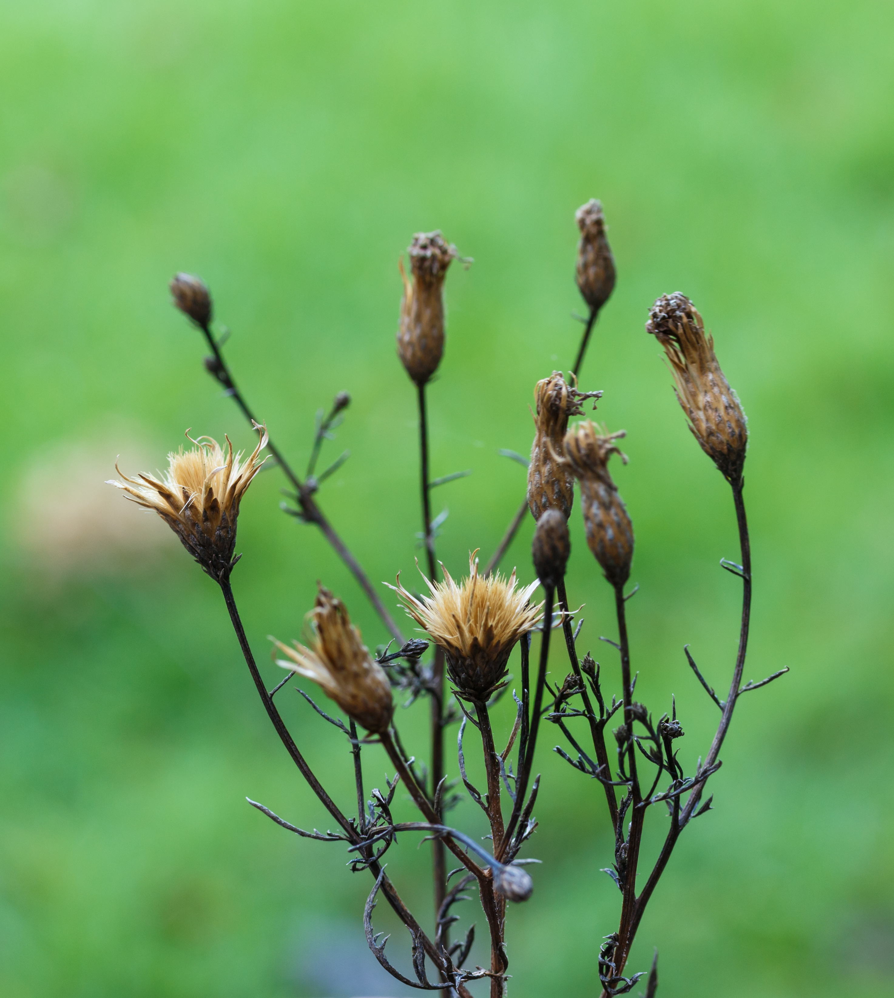 Seed Boxes Serratula seoanei, Blade. Location, Garden Valley Reserve Jonker.